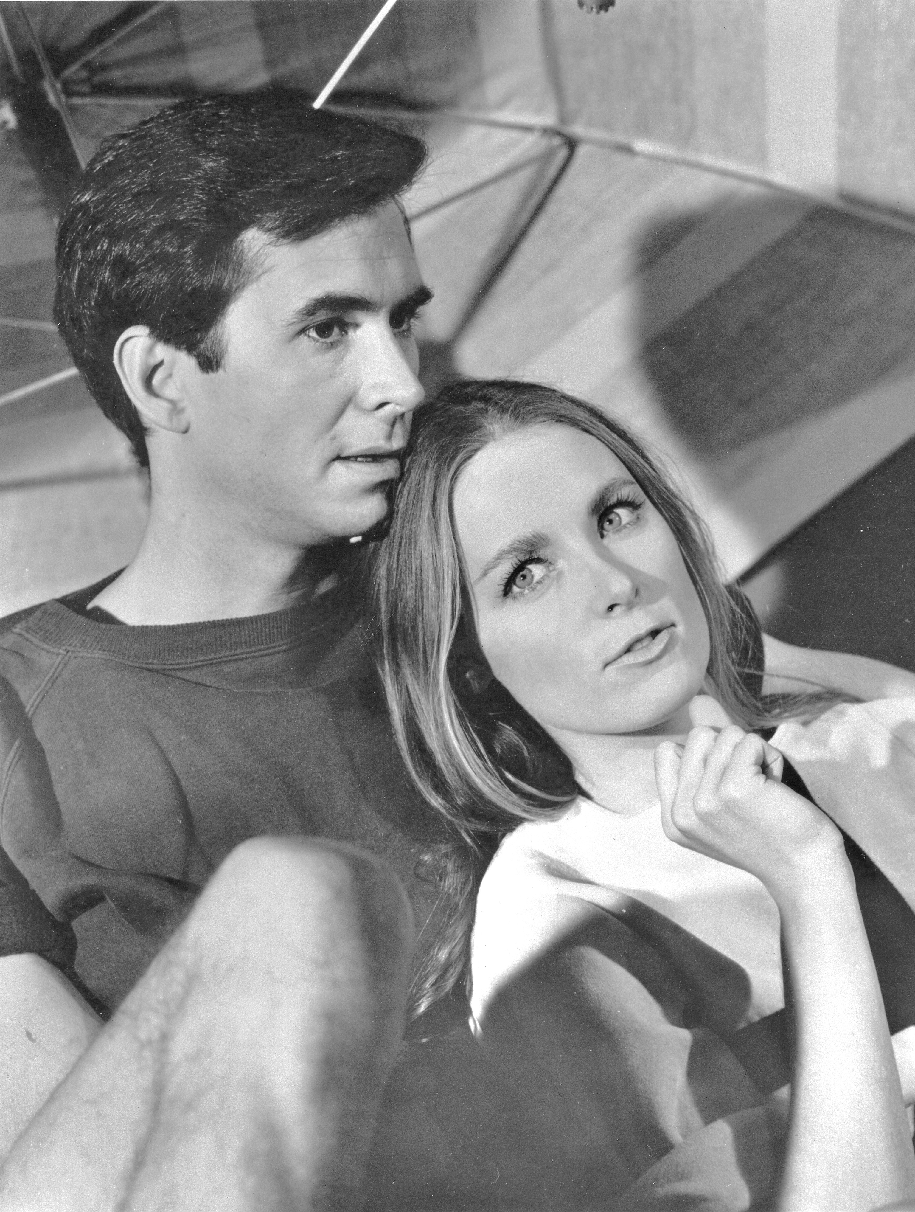 Publicity photograph of Evening Primrose, aired originally on Wednesday, November 16, 1966, 10-11pm EST/PST, as part of ABC Stage 67. Pictured cast were Anthony Perkins and Charmian Carr.